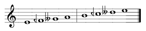 Ancient Greek Dorian octave species, in the eharmonic genus